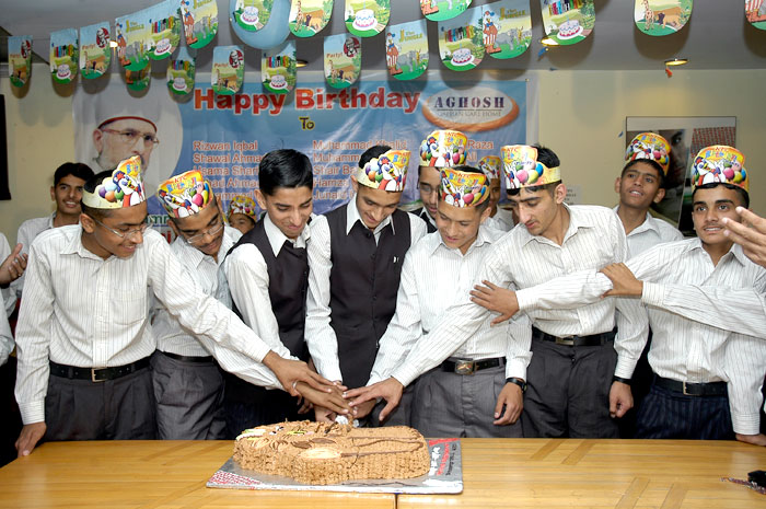 Licensing Policy about Wikipedia This is to clarify that all contents and images of this website can be used with reference of this website on Wikipedia under the free license: Creative Commons Attribution-Share Alike 4.0 International.